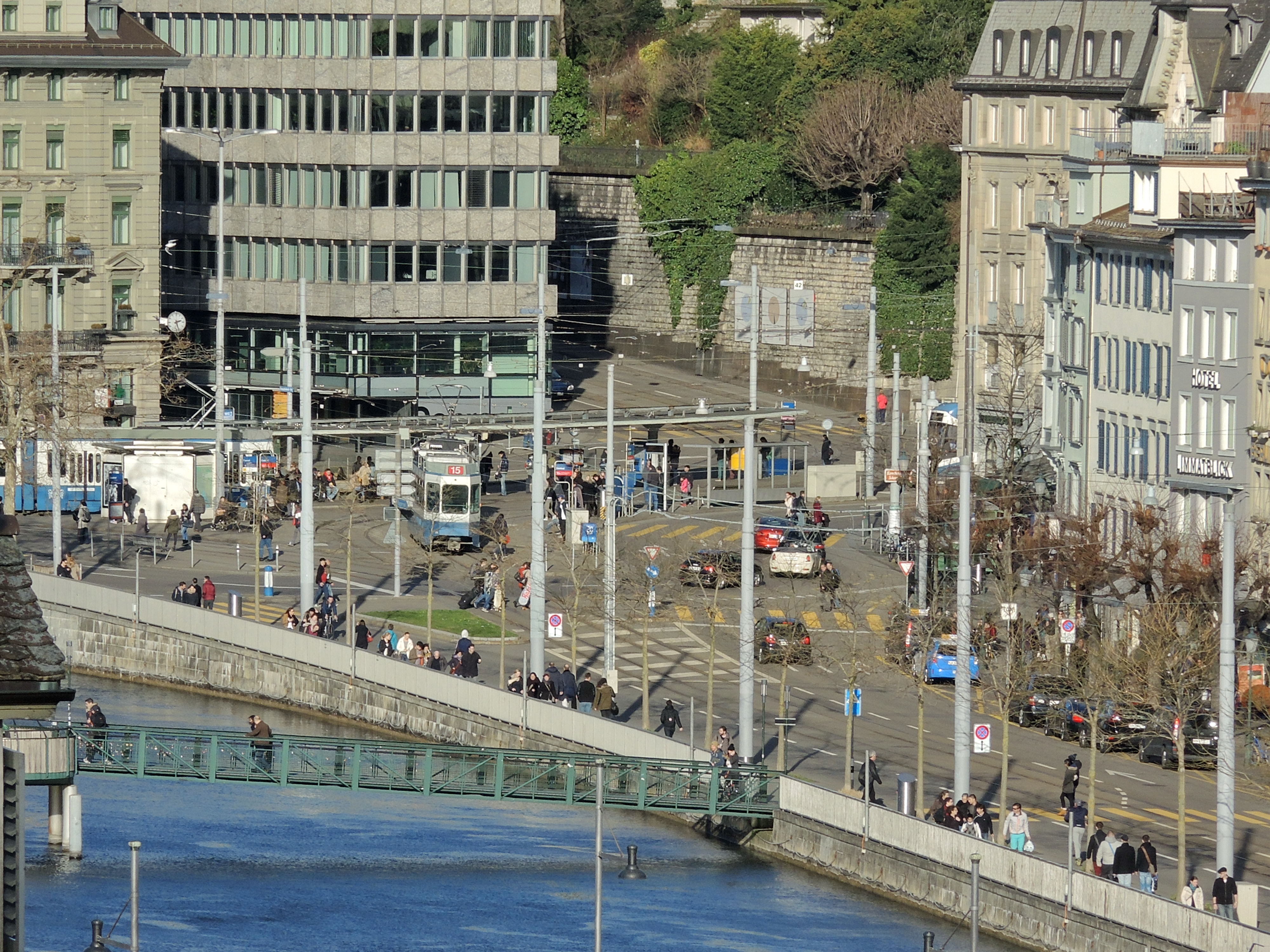 Central and Limmatquai in Zürich, as seen from Lindenhof hill plateau, Bahnhofbrücke to the left.